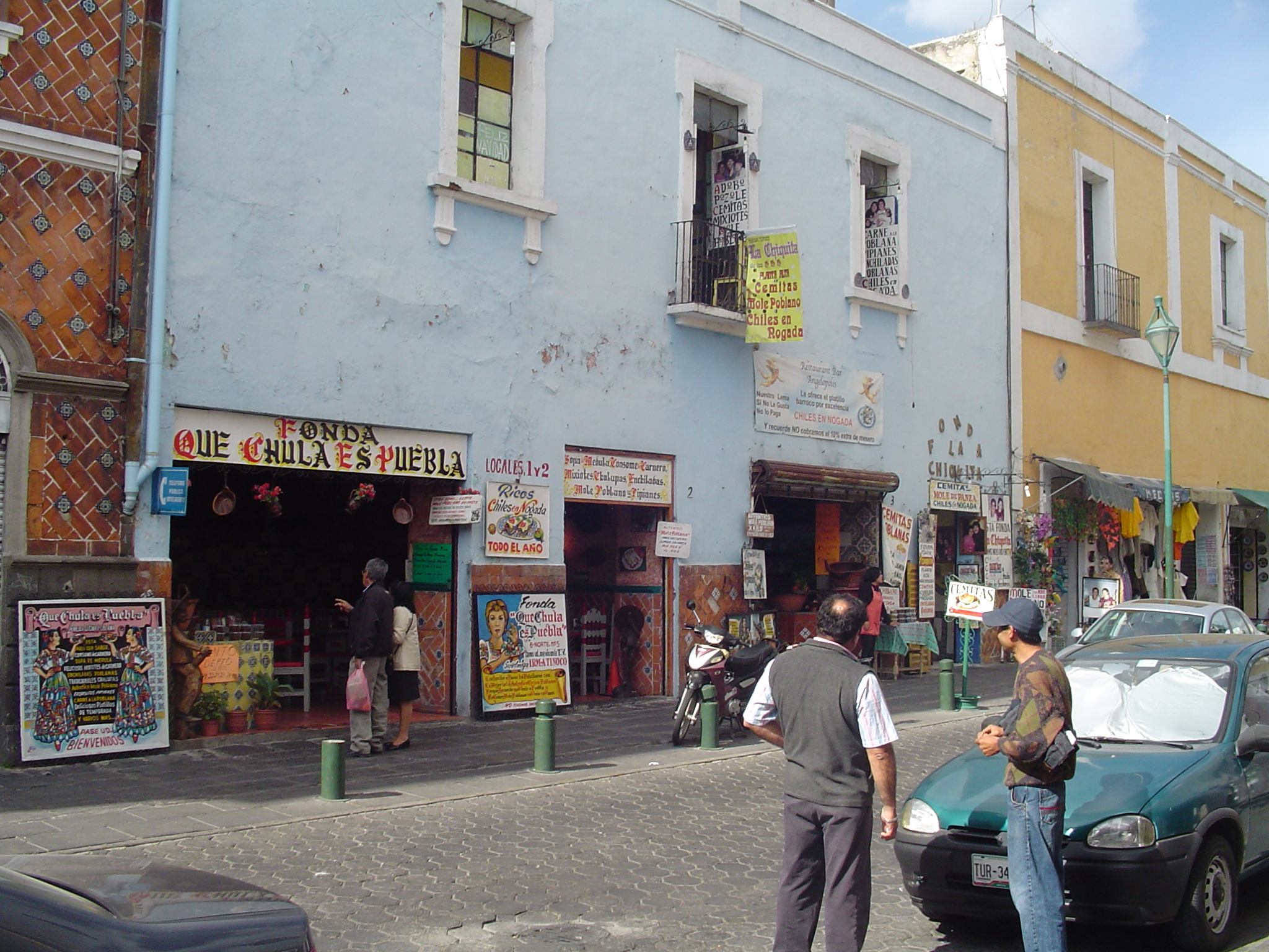 The street in Puebla, Puebla, Mexico